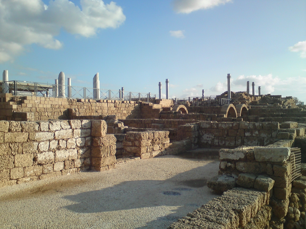 Barrat Qisarya village (Haifa)